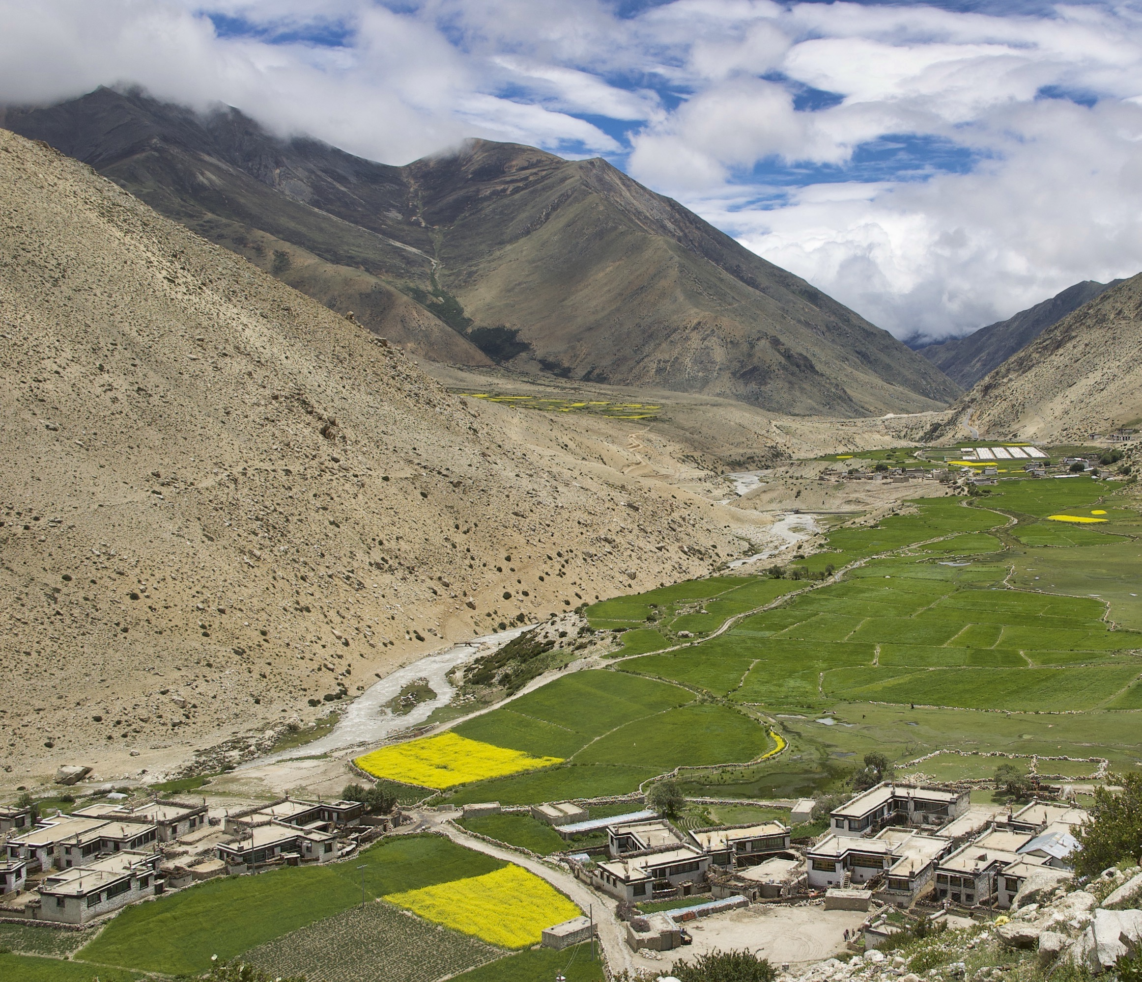 The Gompa at the Cave of Milarepa seen from the "Friendship's Highway" Tibet-Nepal